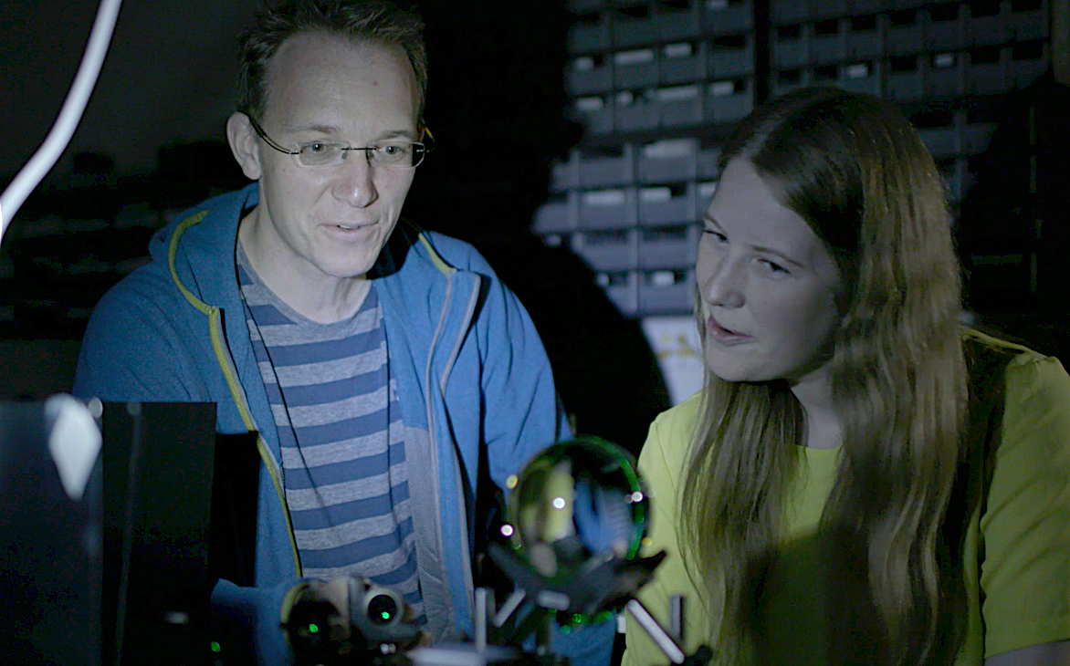 Date: April 2017 Photographer: Thievery Creative Copyright: Dodd-Walls Centre Where: Department of Physics, University of Otago Details: Dr Harald Schwefel, Principal Investigator, Dodd-Walls Centre, University of Otago and PhD student Bianca Sawyer